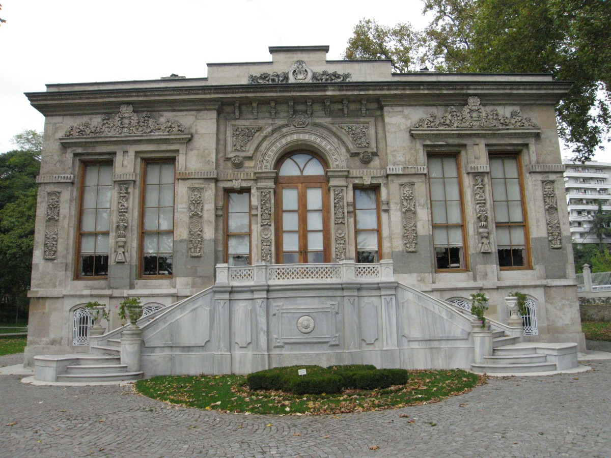 Front façade of the Court Pavilion of Ihlamur Palace in Istanbul, Turkey